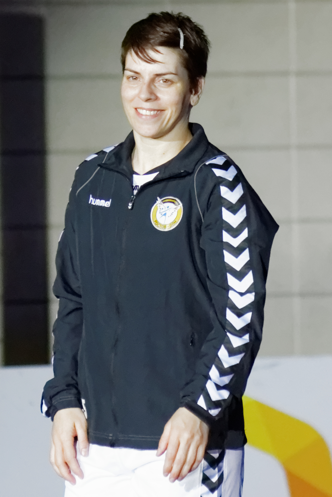 Semi-final EHF Cup Winners' Cup. Issy Paris Hand - Rostov-Don, 5 April 2013. Ana Đokić (Rostov-Don).